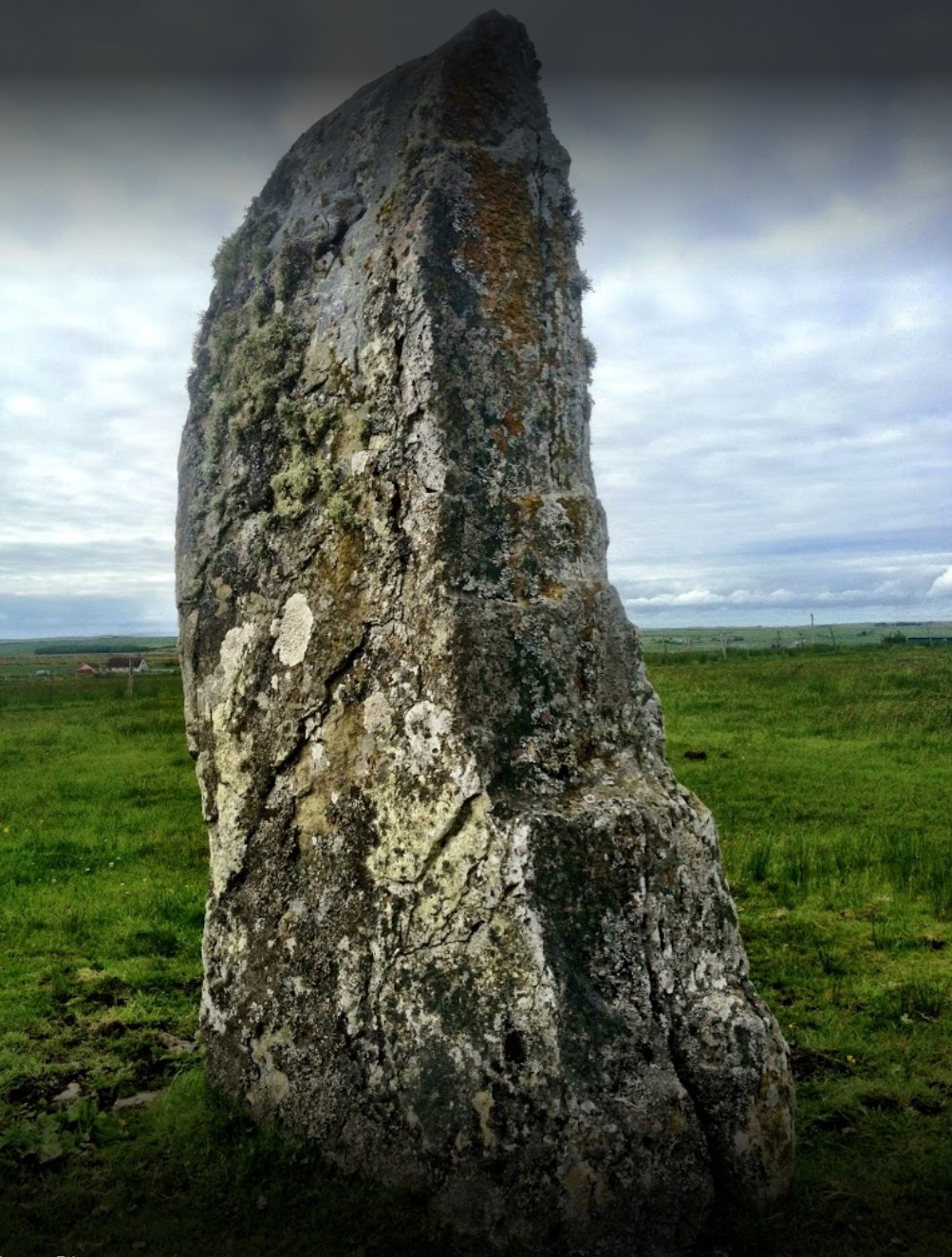 The Stone Lud is a standing stone in the parish of Bower in Caithness, in the Highland area of Scotland. It is located and about 7 kilometres (4.3 mi) south of Castletown.